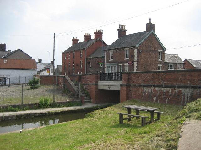 Canal in Llanymynech. The bridge carries the A483 across the Montgomery Canal.